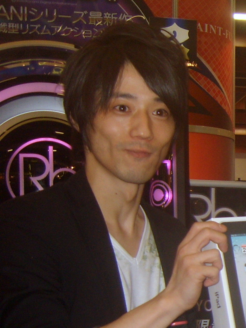 2011 GTI Asia Taipei Expo: DJ YOSHITAKA at RBTWGP Area.